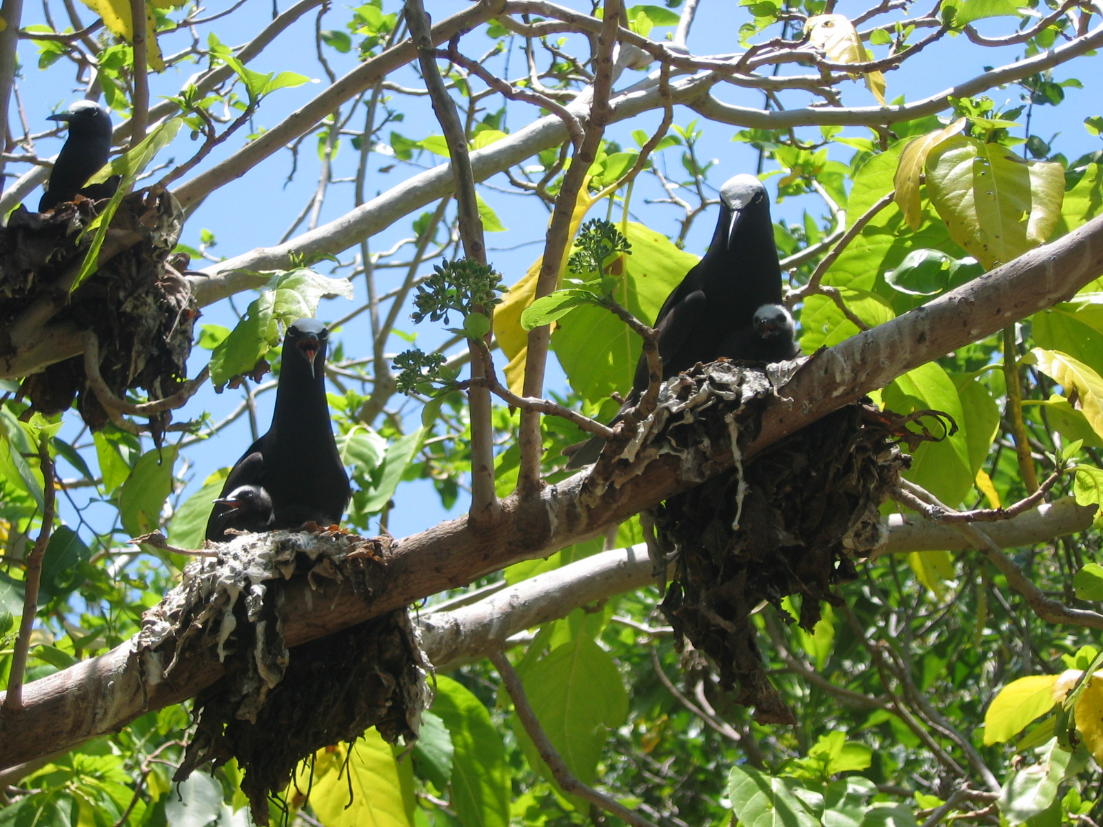 Black Noddy or White-capped Noddy nesting on Heron Island, Australia.